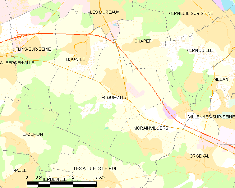 Map of French municipality Ecquevilly